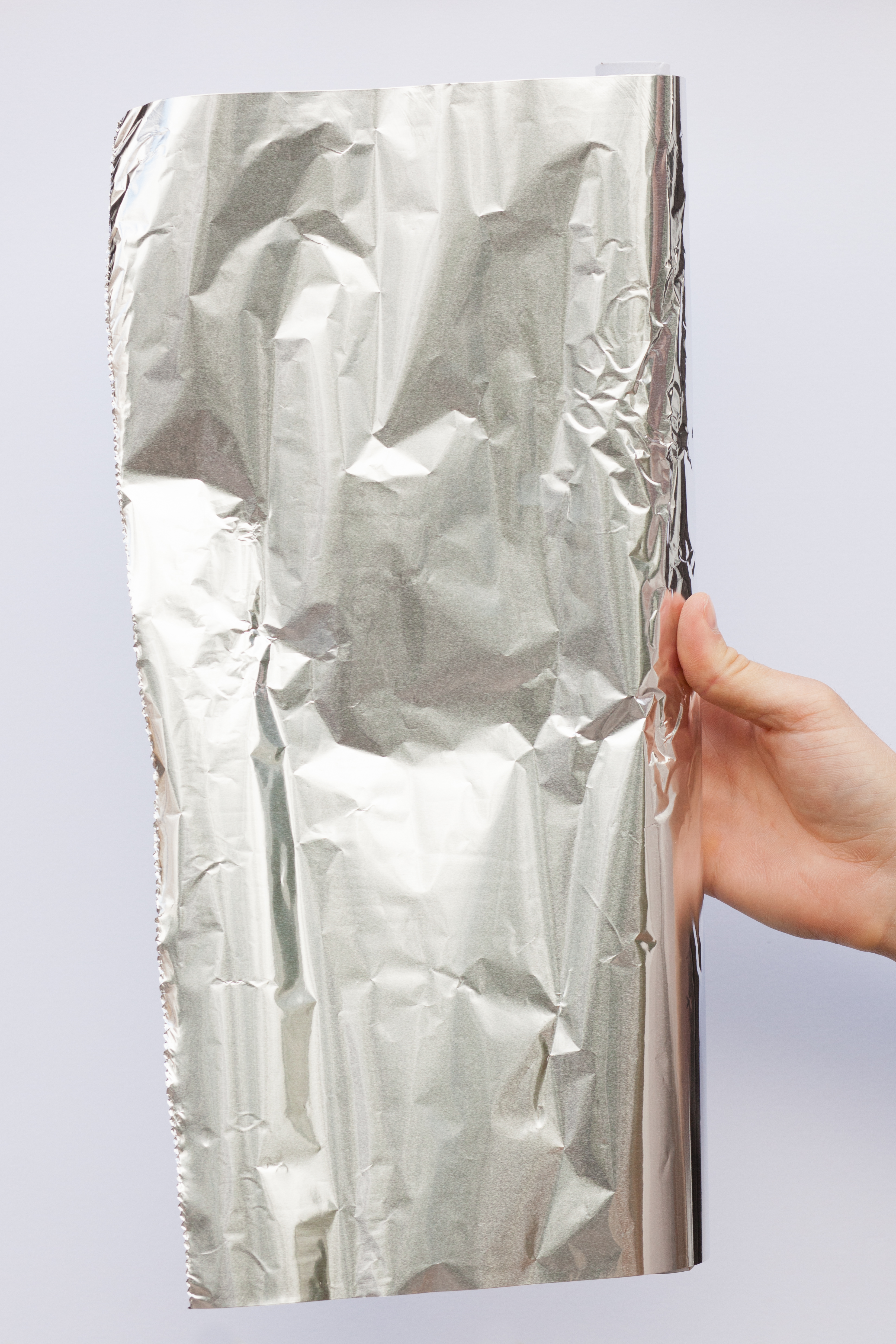 Aluminium cooking foil